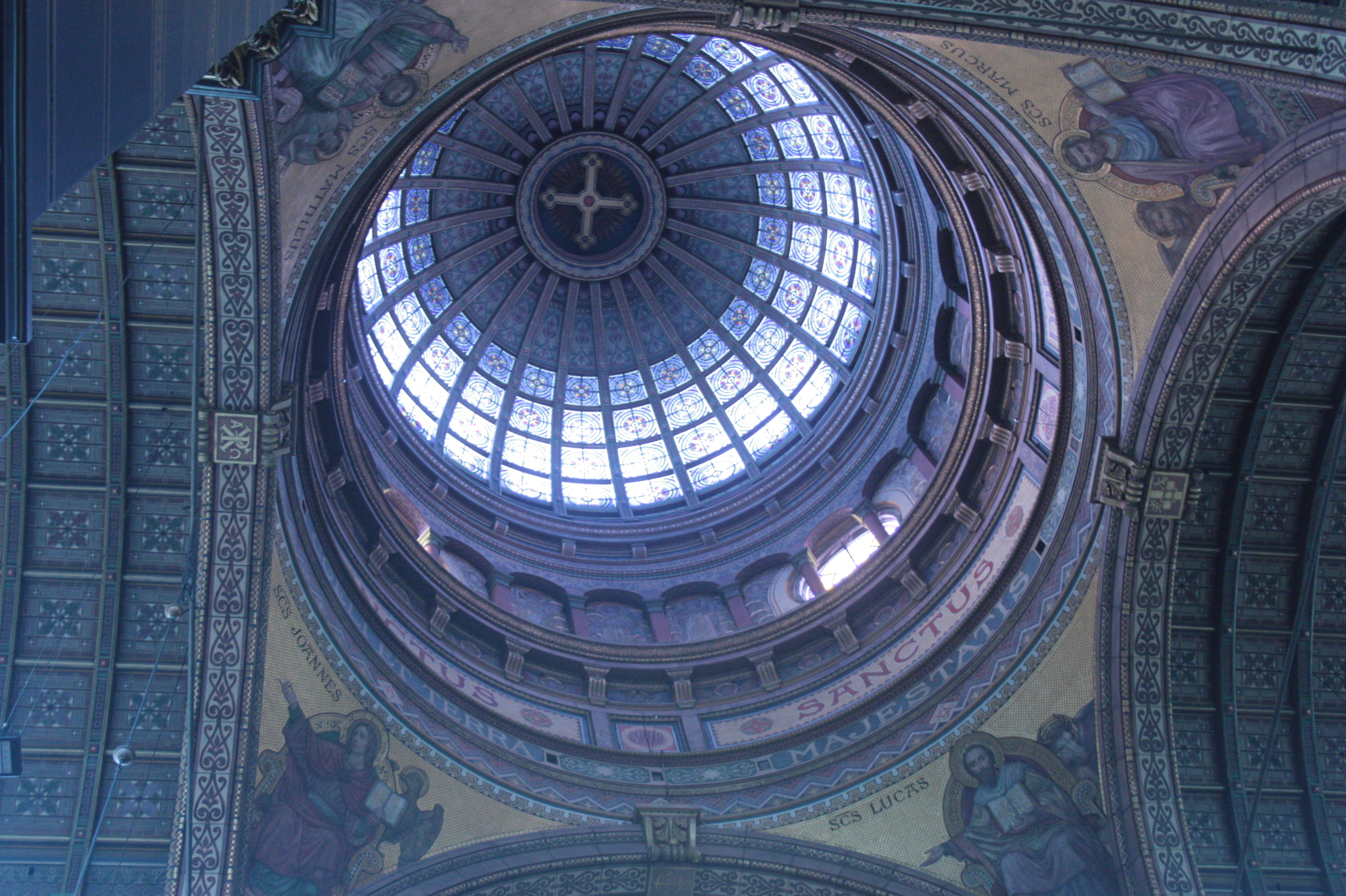 The interior of the dome.St Nikolas Basilica, Amsterdam